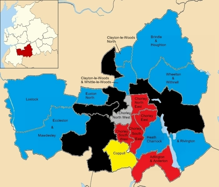 Chorley 2008